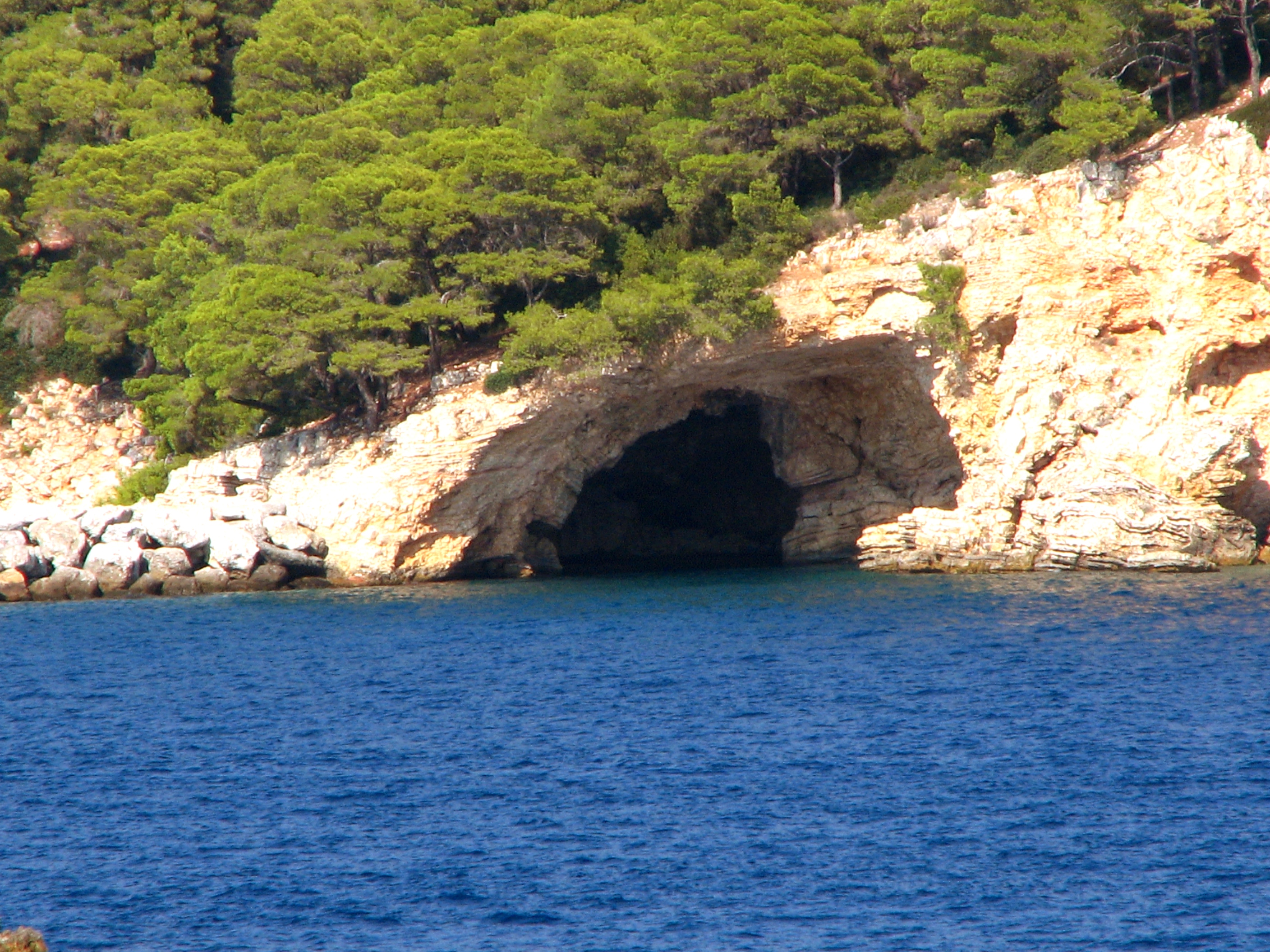 Cave in Alonisos, Greece.